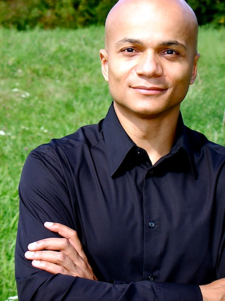 Actor, Omar Sangare in Williamstown, MA, USA.